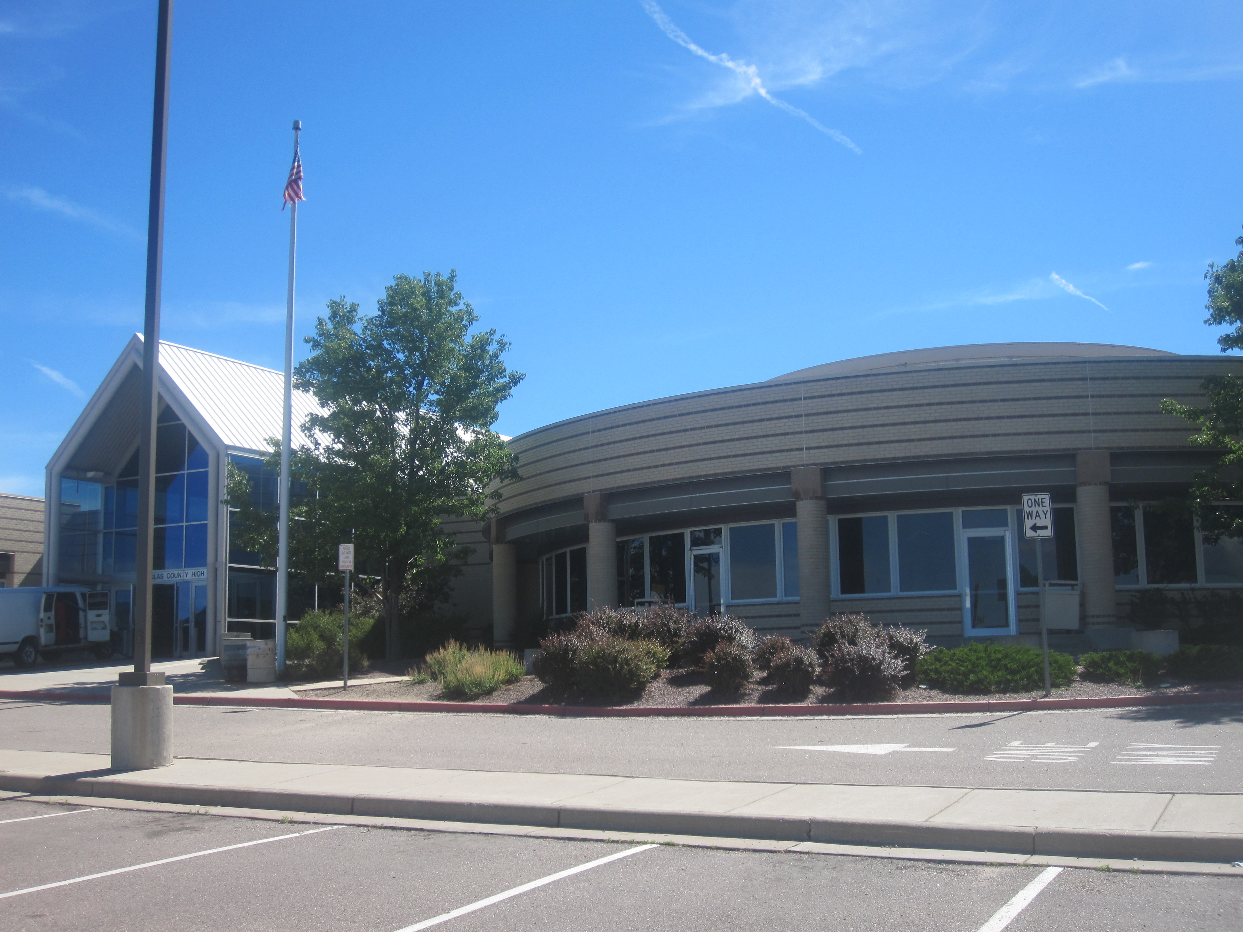 I took photo in Castle Rock, CO, with Canon camera.